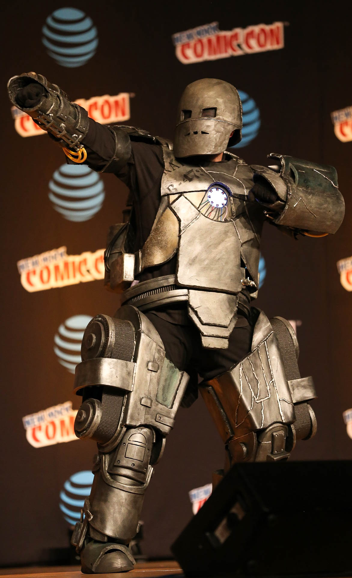 Kevin Uribe cosplaying as Mk 1 Iron Man (from the 2008 film Iron Man and Marvel Comics) in the Eastern Championships of Cosplay contest at the 2016 New York Comic Con.